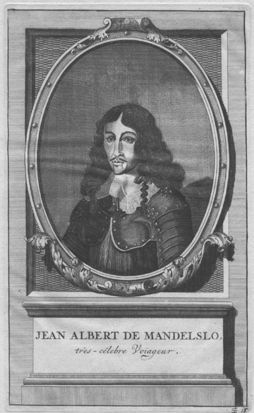 Portarit of Johann Albrecht von Mandelslo, Johan Albrecht de Mandelslo, copper engraving, picture: 148x101 mm; plate: 149x102 mm; published in Adam Olearius: Neue Orientalische Reisebeschreibung. 1646. - after title page